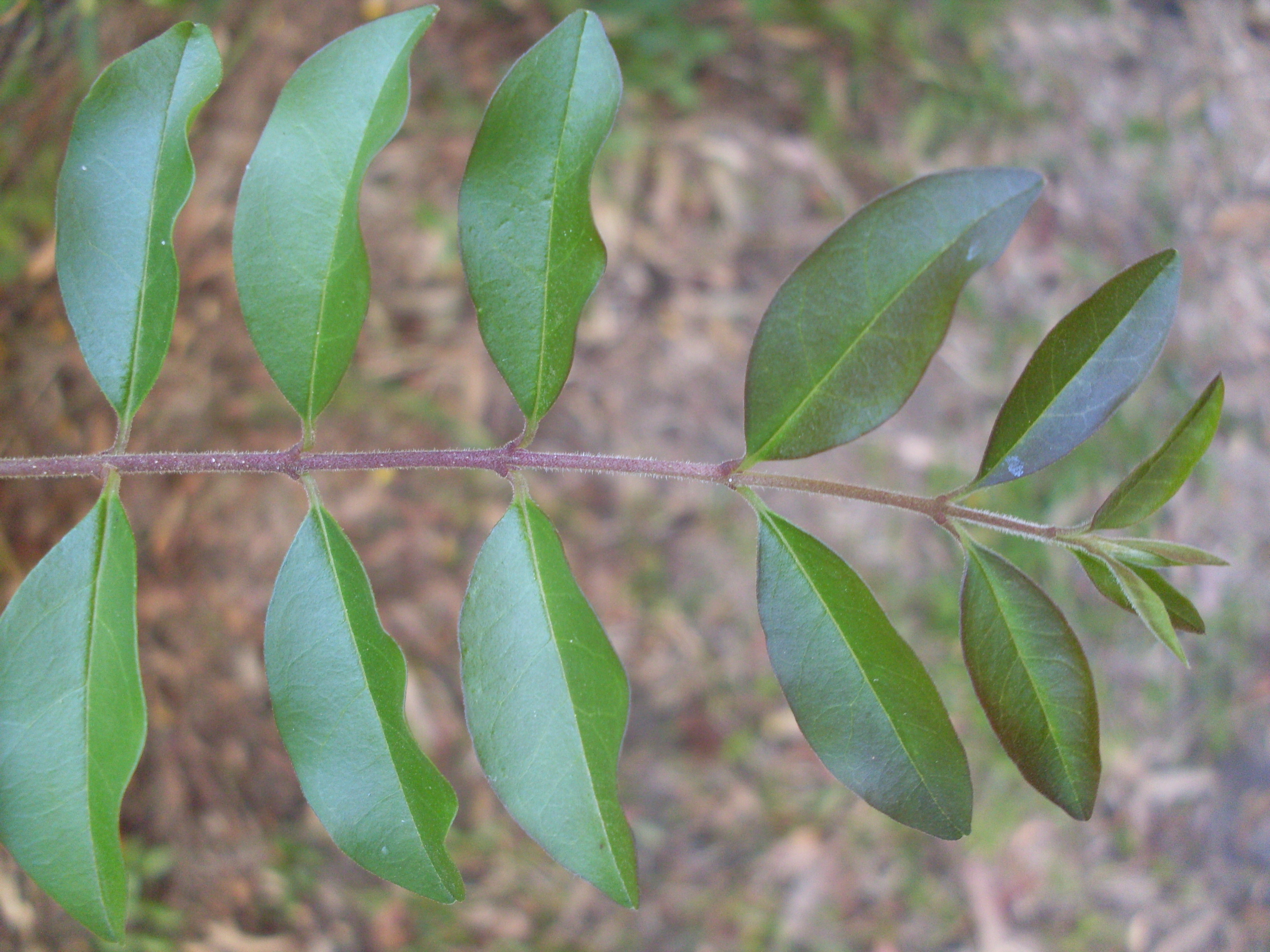 Small-leaf privet (Ligustrum sinense). A noxious weed. Leaves are opposite each other on the stem. Como NSW Australia, October 2009.